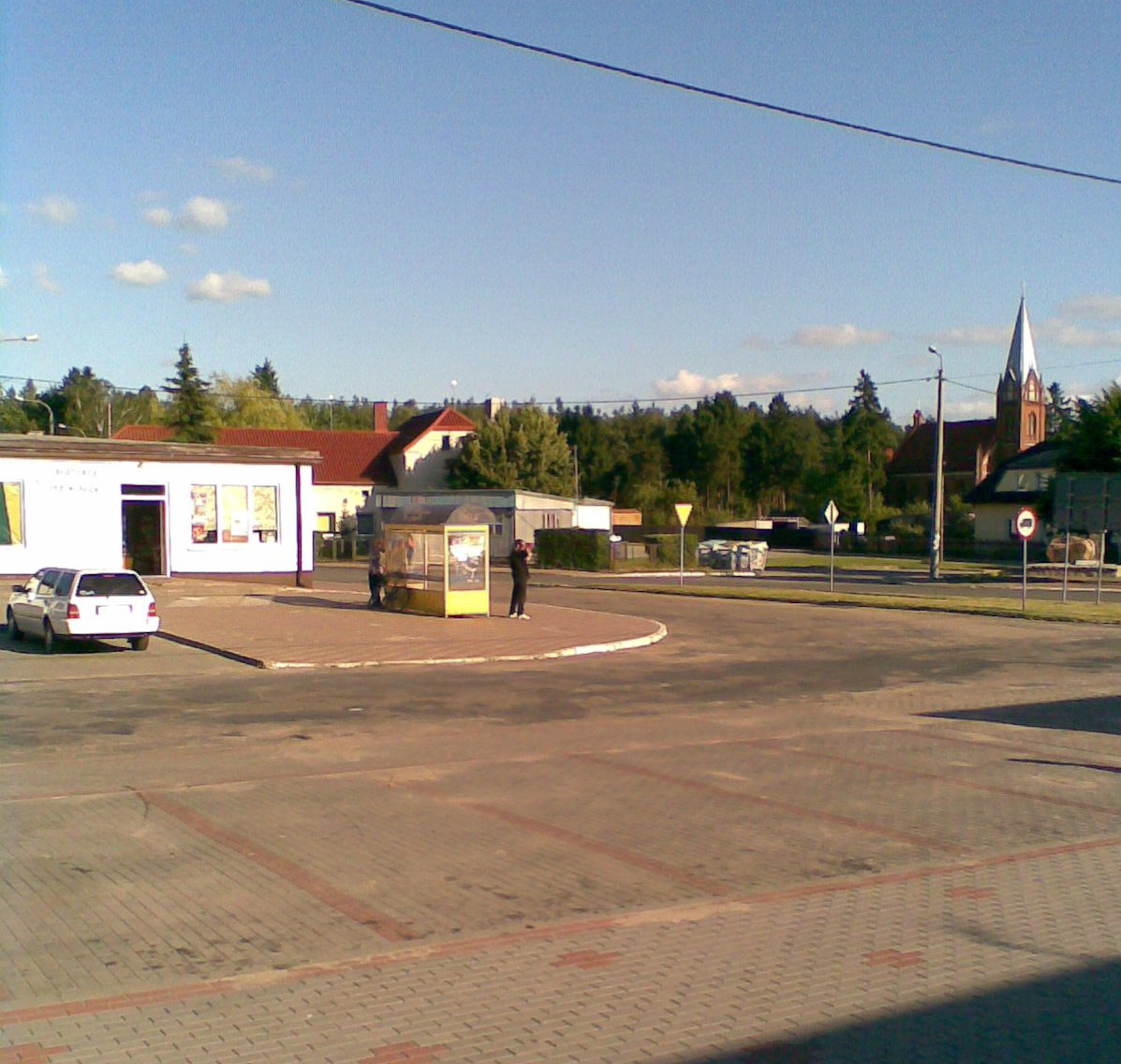 Fragment of Mikołajki Pomorskie